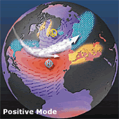 The positive phase of the North Atlantic Oscillation